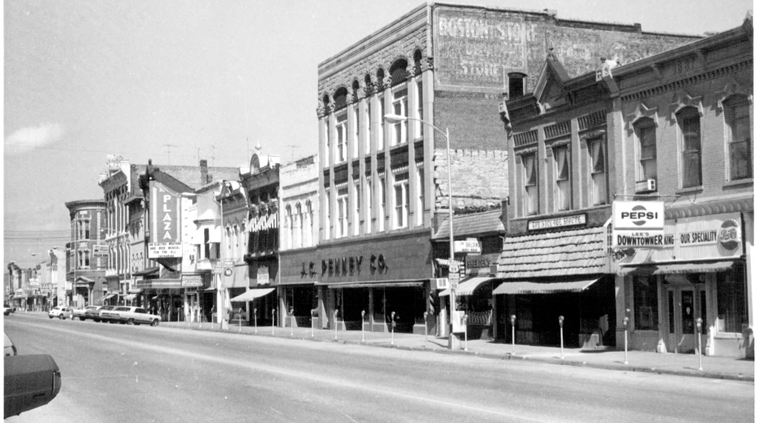 East side of the 200 block of South Main Street, plus 135 South Main Street [Ottawa, Kansas, USA]. Original Caption: View from the northwest of the Ring, Barker, and Smith Buildings (201-203 Main), the O. K. Photo Building (205 Main), the Sutton Jewelry Building (207 Main), and part of the Pickrell Block (present Plaza Theater), all situated near the north end of the district.